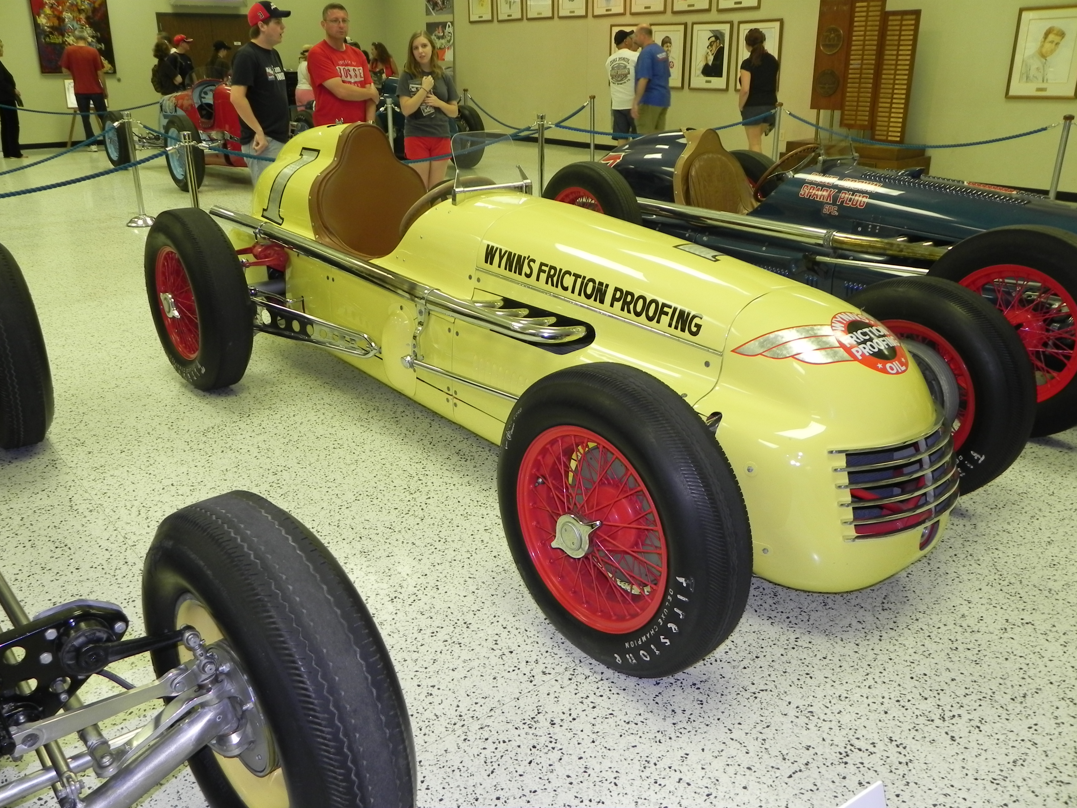 Image of the winning car of the 1950 Indianapolis 500 (Johnnie Parsons). Photo was taken at the Indianapolis Motor Speedway Hall of Fame Museum, during the month of May 2011, at the 100th Anniversary "Ultimate Indianapolis 500 Winning Car Collection."